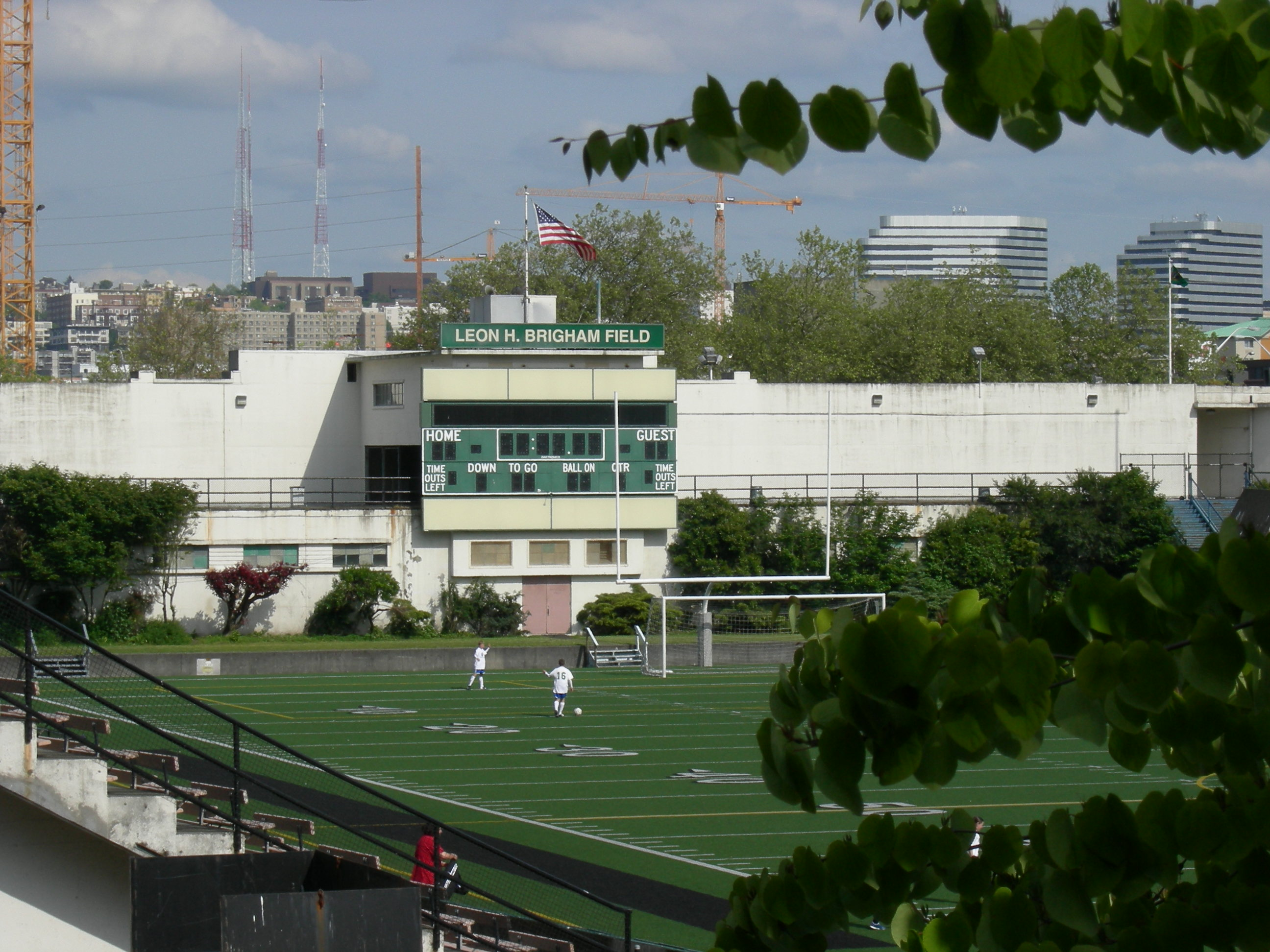 View of the playfield and scoreboard from northwest corner of Seattle High School Memorial Stadium, Seattle Center, Seattle, Washington.